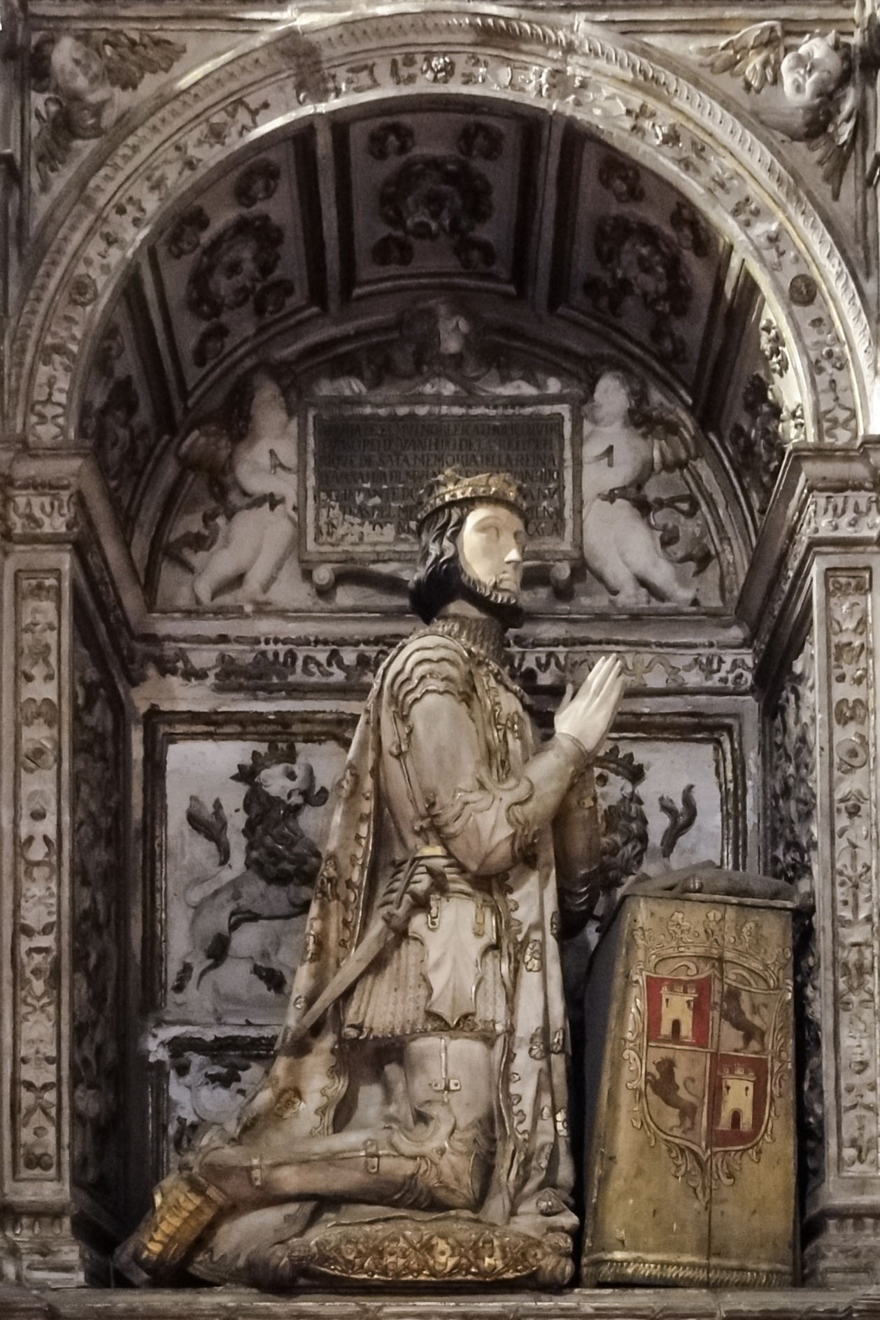 Tomb of John I of Castile in the Chapel of the New Kings of the Cathedral of Toledo, Spain